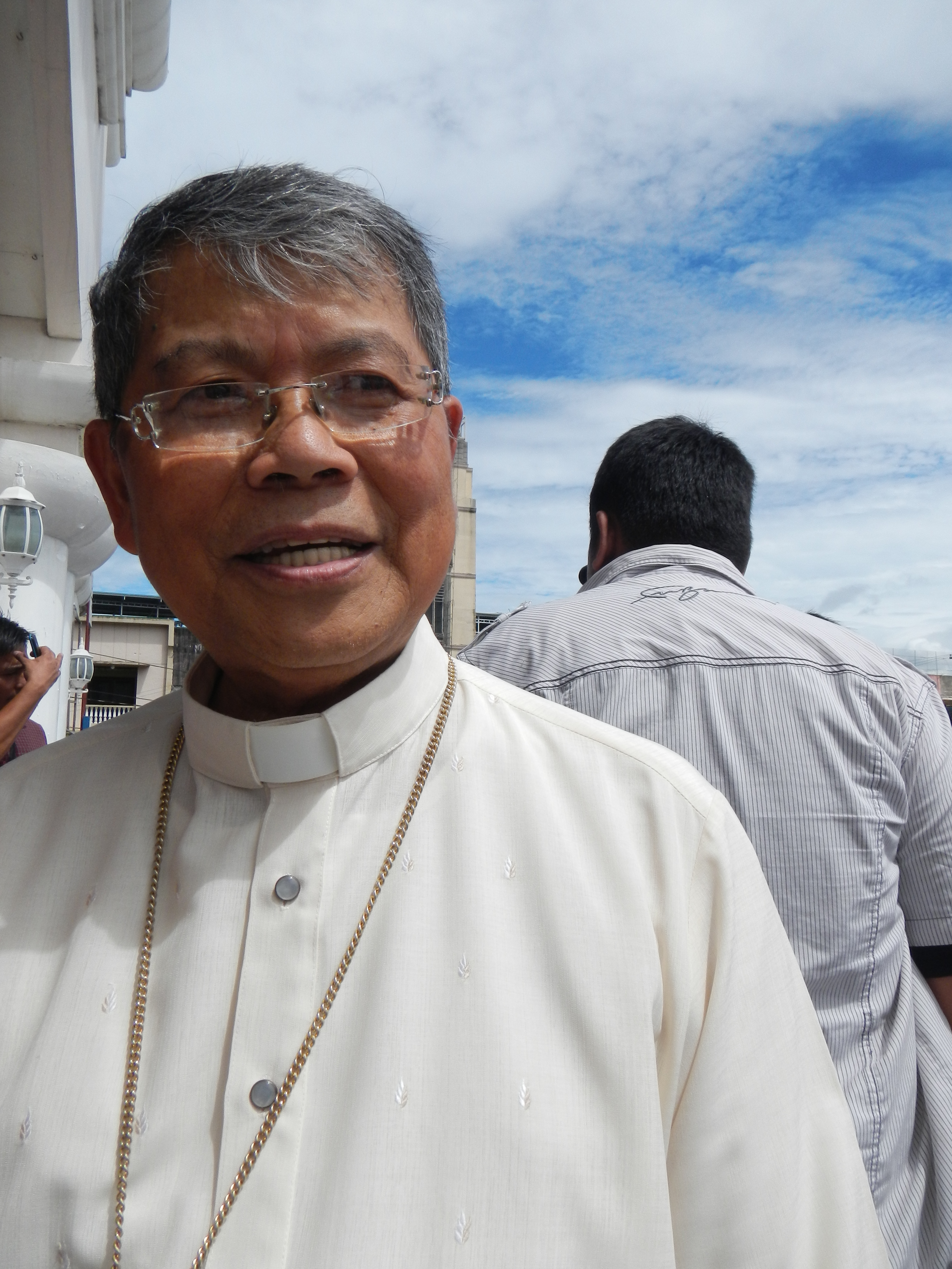 José Francisco Oliveros appointed bishop in 2004 of Roman Catholic Diocese of Malolos - Media interview on the NEWLY Painted, Restoreed, Renovated (- for the October 27 Installation of Florentino Lavarias, D.D., in the) Metropolitan Cathedral of San Fernando in Pampanga - Florentino Lavarias.